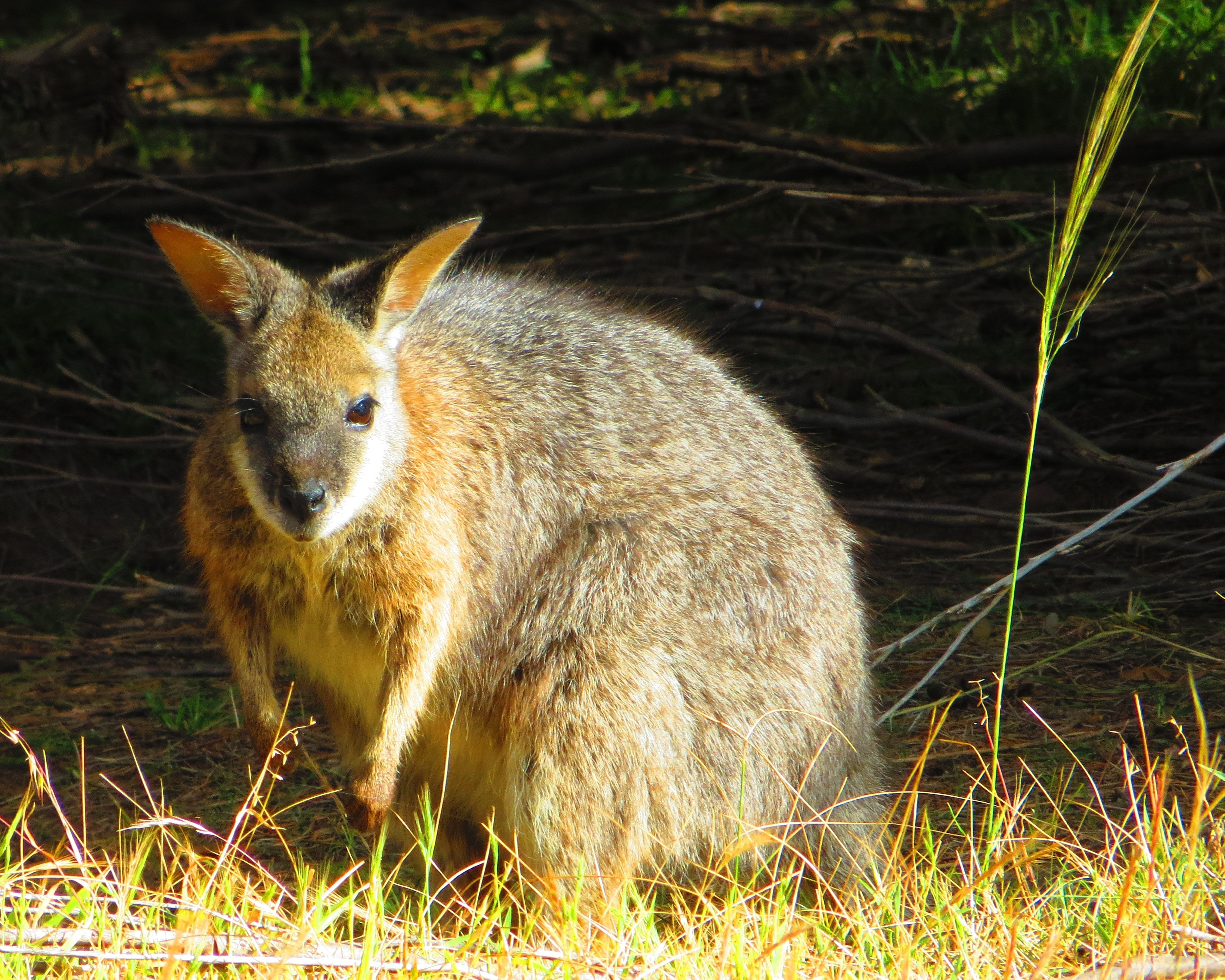 Tammar wallaby (Macropus eugenii), Stokes Bay, Kangaroo Island, South Australia